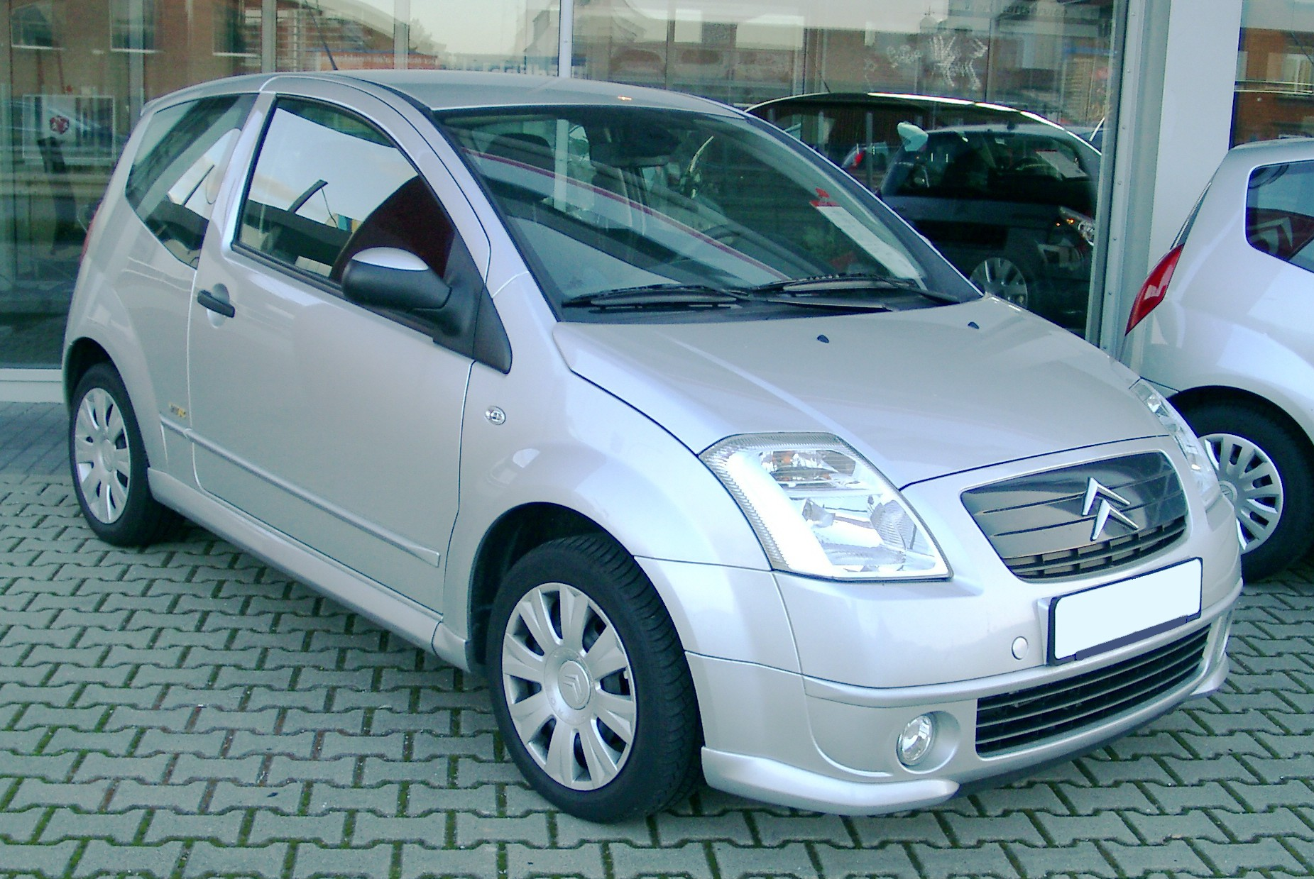 Citroën C2